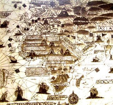 Cartographic map of Africa with indications of ancient culture